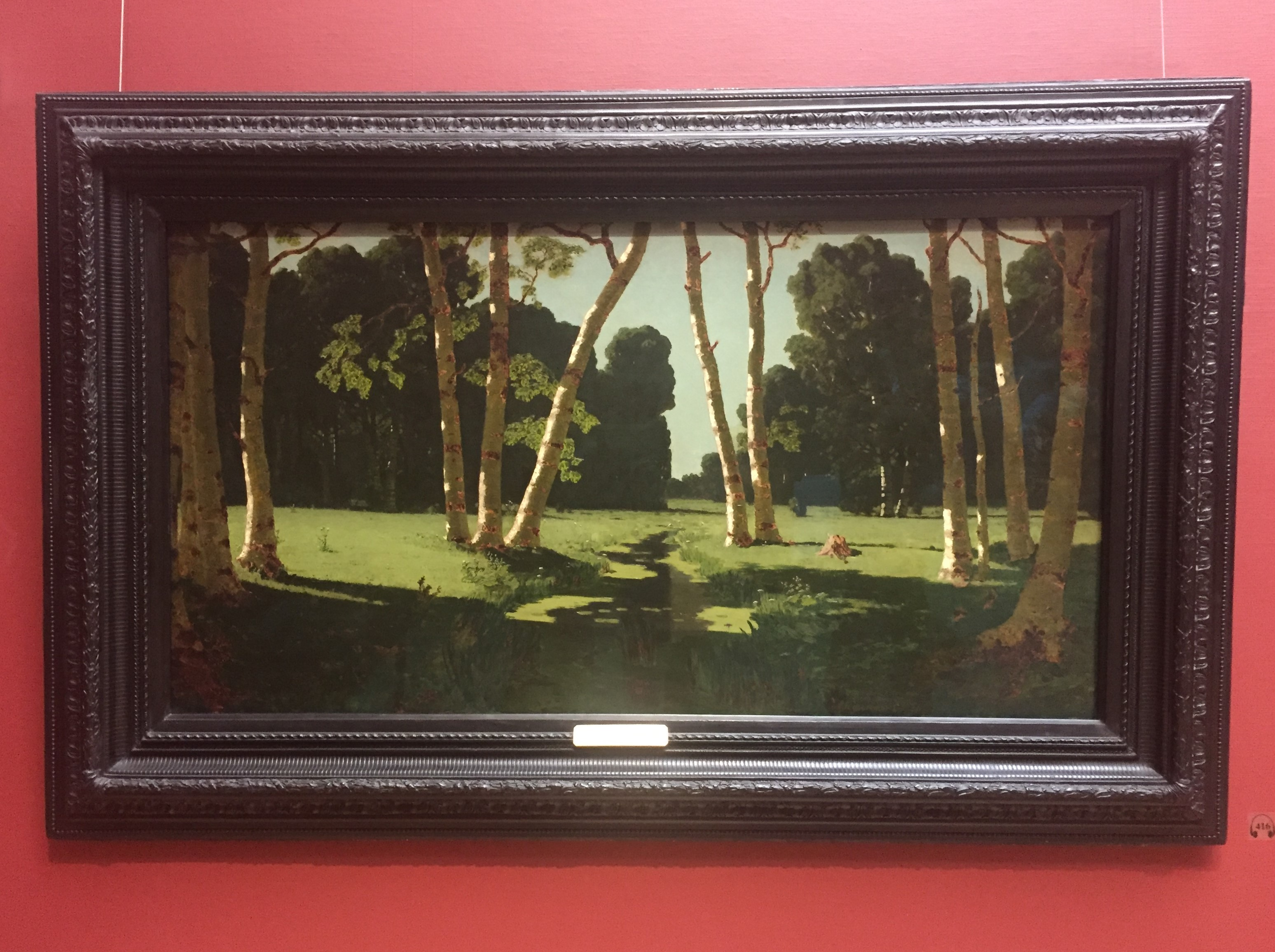 "Birch grove" (painting by Arkhip Kuindzhi, 1879) in the State Tretyakov gallery